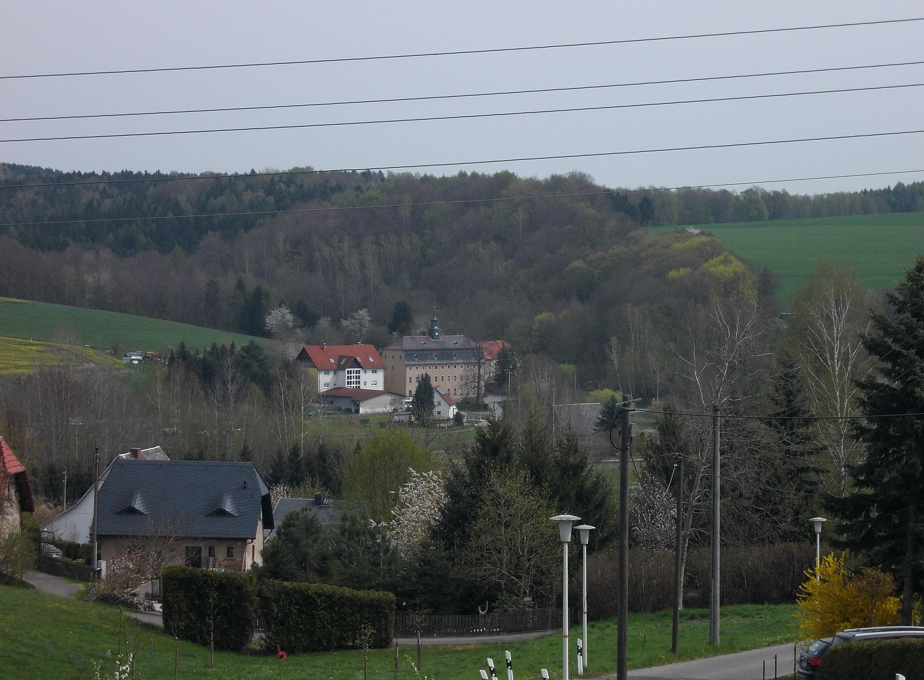 View in direction of the Chemnitz valley in Göritzhain (Lunzenau, Mittelsachsen district, Saxony)